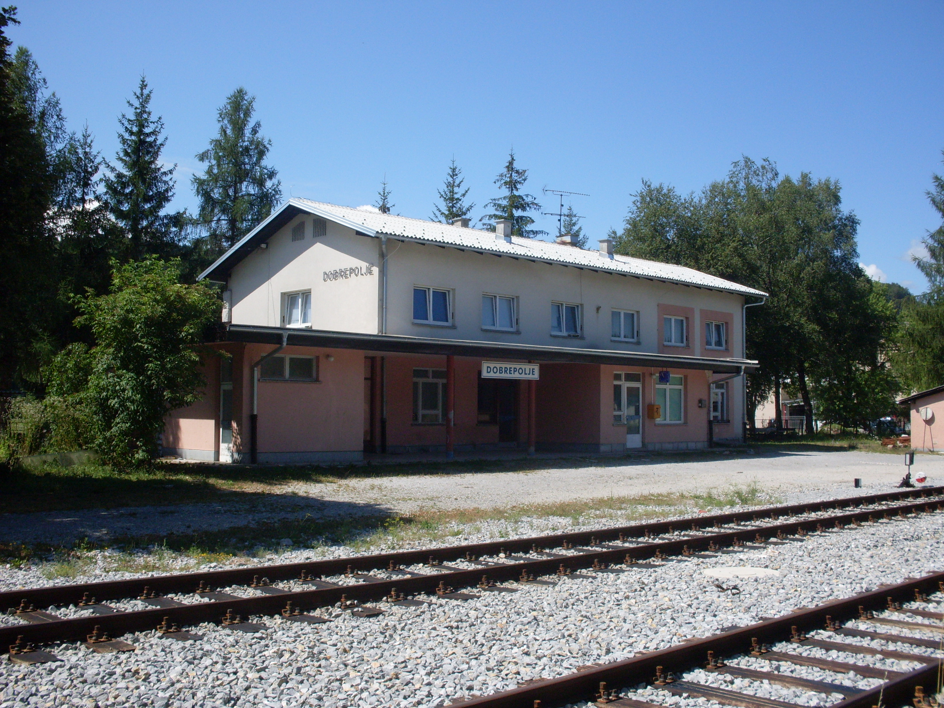 Train station Dobrepolje, located in Predstruge